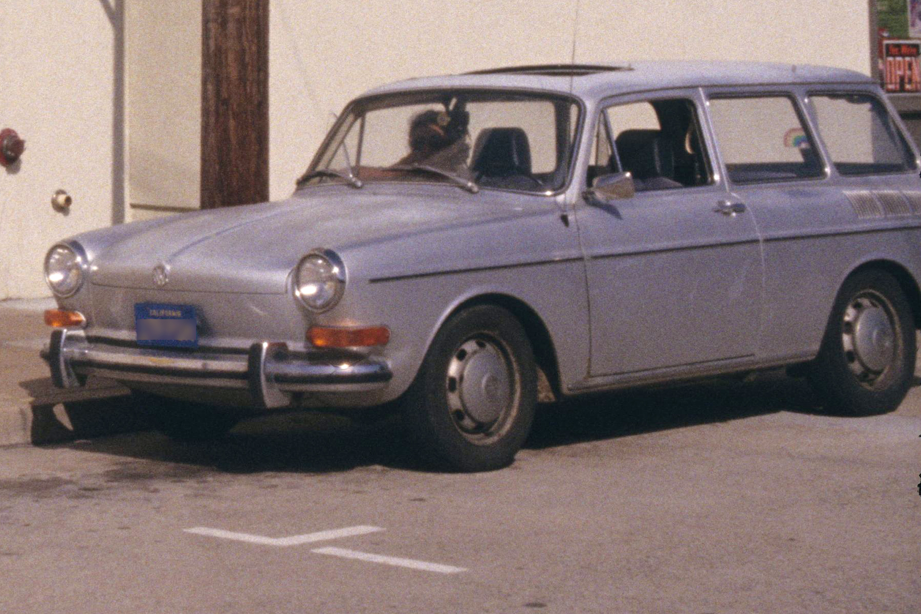 This is a 1973 Volkswagen (VW) Squareback model car. The Squareback was one of the VW Type 3 ( vehicles. The seats were a kind of corduroy on the seat and the back, with vinyl on the headrest. The front seat headrests were built into the seat and could not move or be adjusted. The backseat did not have any headrests. This model had an optional sunroof. The sunroof and all four windows had to be cranked open; they were not automatic. In the front of the car, what would normally be called the hood, could be opened like a regular hood but inside was storage space, since the engine was in the back and the battery was under the back seat.